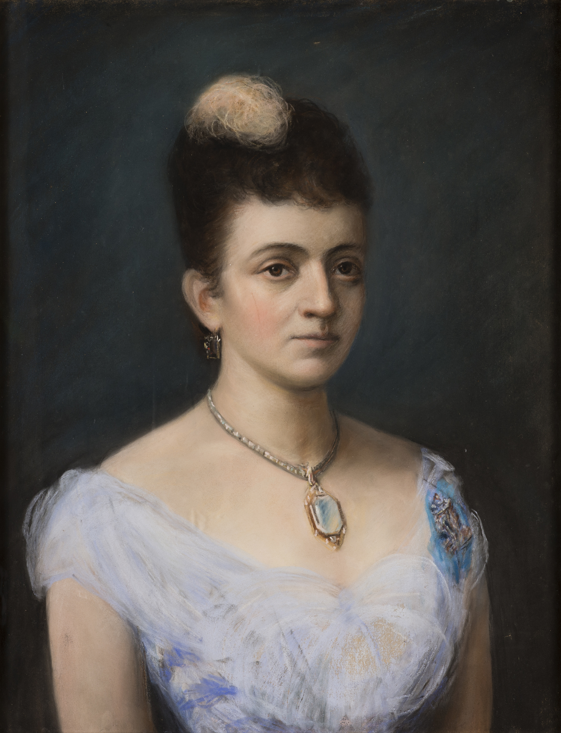 Louise Ulrika Sparre af Söfdeborg (1852-1937), gift med Louis de Geer of Leufsta. Avporträtterad av okänd konstnär ca 1880.